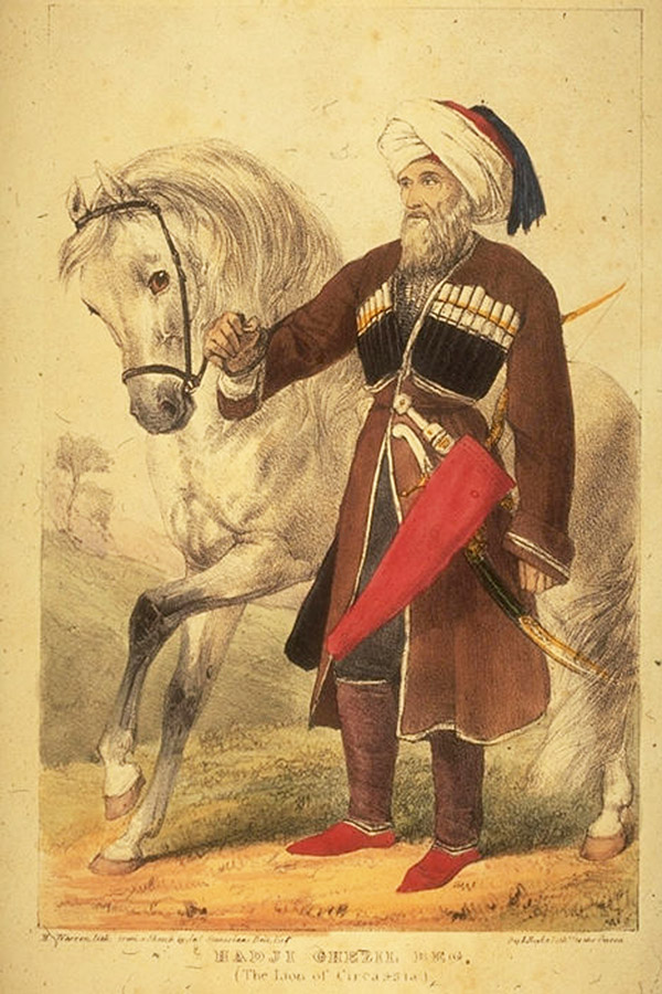 Guz Beg the "Lion of Circassia." (Sheretluko Kyzbech Tughuzique, 1777-1840)